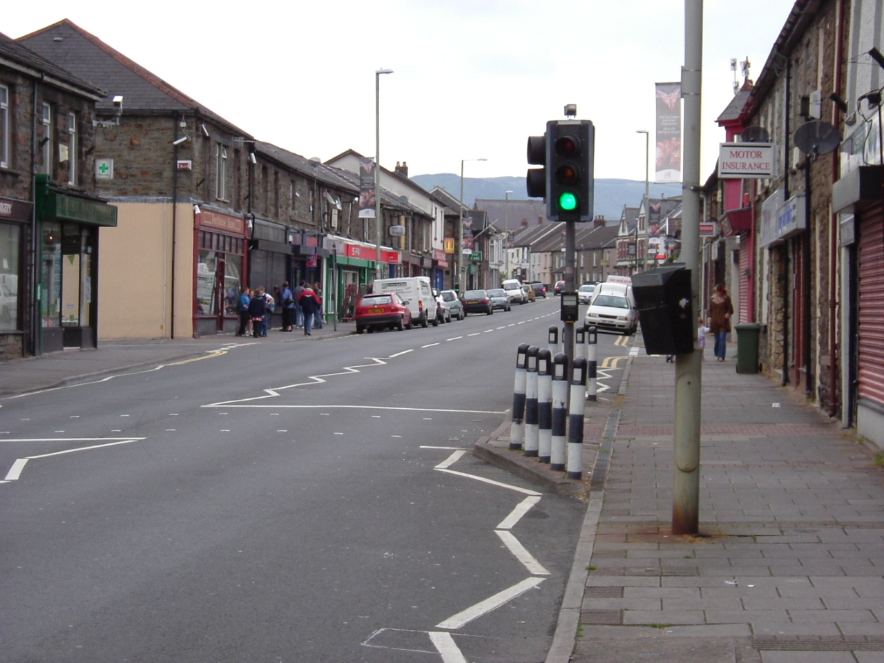 A view of Bute Street, Treorchy, facing West towards Treherbert. (2005)